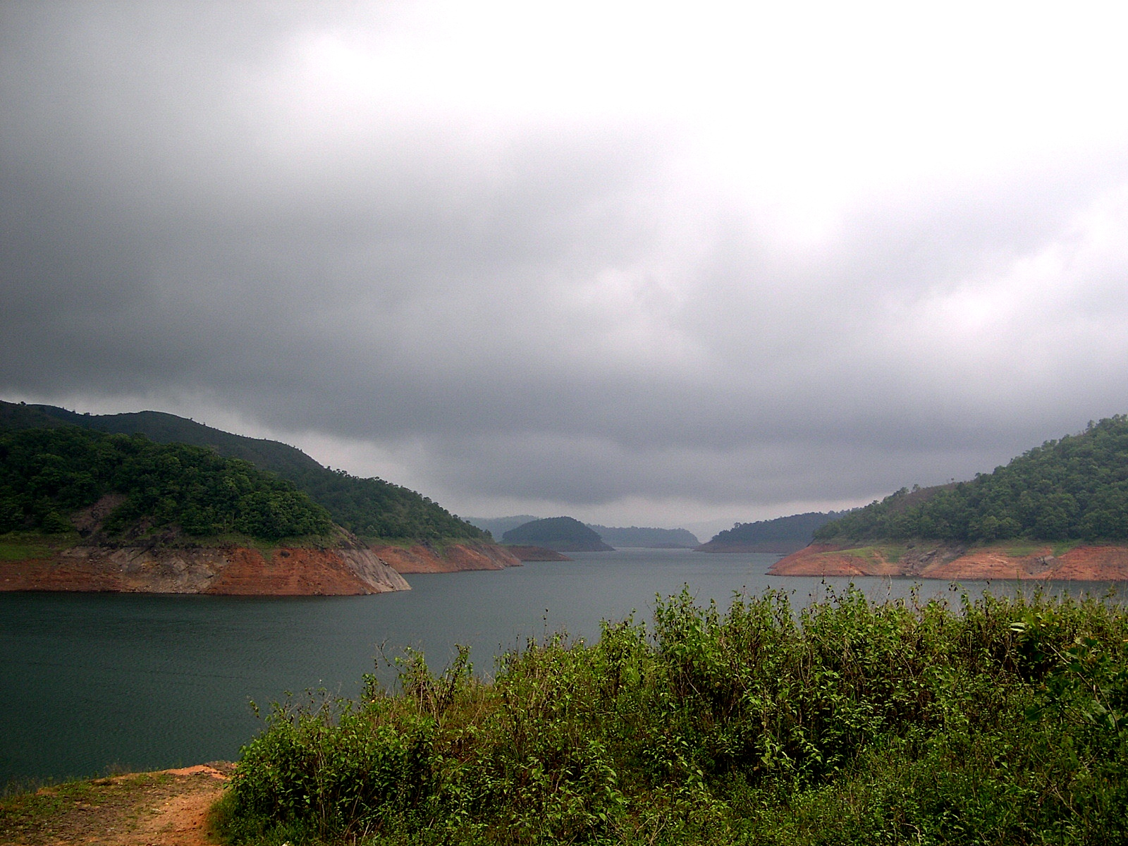 A view of the Idukki reservoir. This is reservoir is built among the hilly region of Idukki district of Kerala. There is a 300MW hydro electric project associated with this reservoir. The reservoir consists of three dams built on the Periyar River between the hills on the Western Ghats Mountain and is beautifully spread over a large forest region. The forest is a native space for Asian elephants. Though there is a Kerala tourism bungalow close to this, the area is a virgin land for tourists. Tekkady Tiger wildlife reserve, a popular tourist spot is close to this.